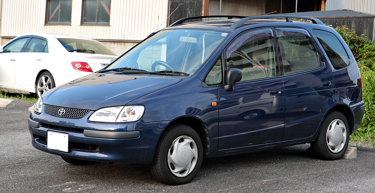 Toyota Corolla Spacio ( First generation )